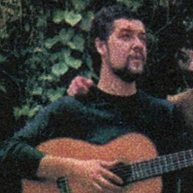 Damián Sánchez. Argentina. Folk musician.